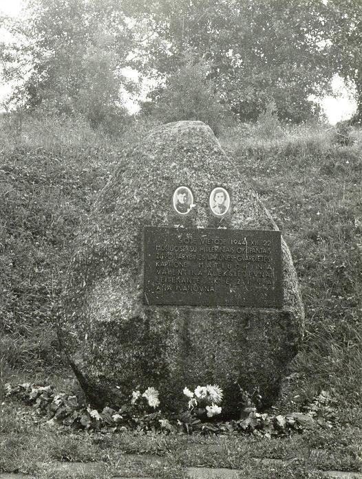 Baubliai settlement, Kretinga district, LithuaniaLietuvių: Paminklas rusų lakūnėms, Kretingos rajonas, Lietuva